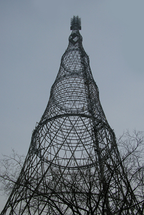 The hyperboloid tower was designed and constructed by the Russian engineer and scientist Vladimir Shukhov (1853-1939) in 1922.